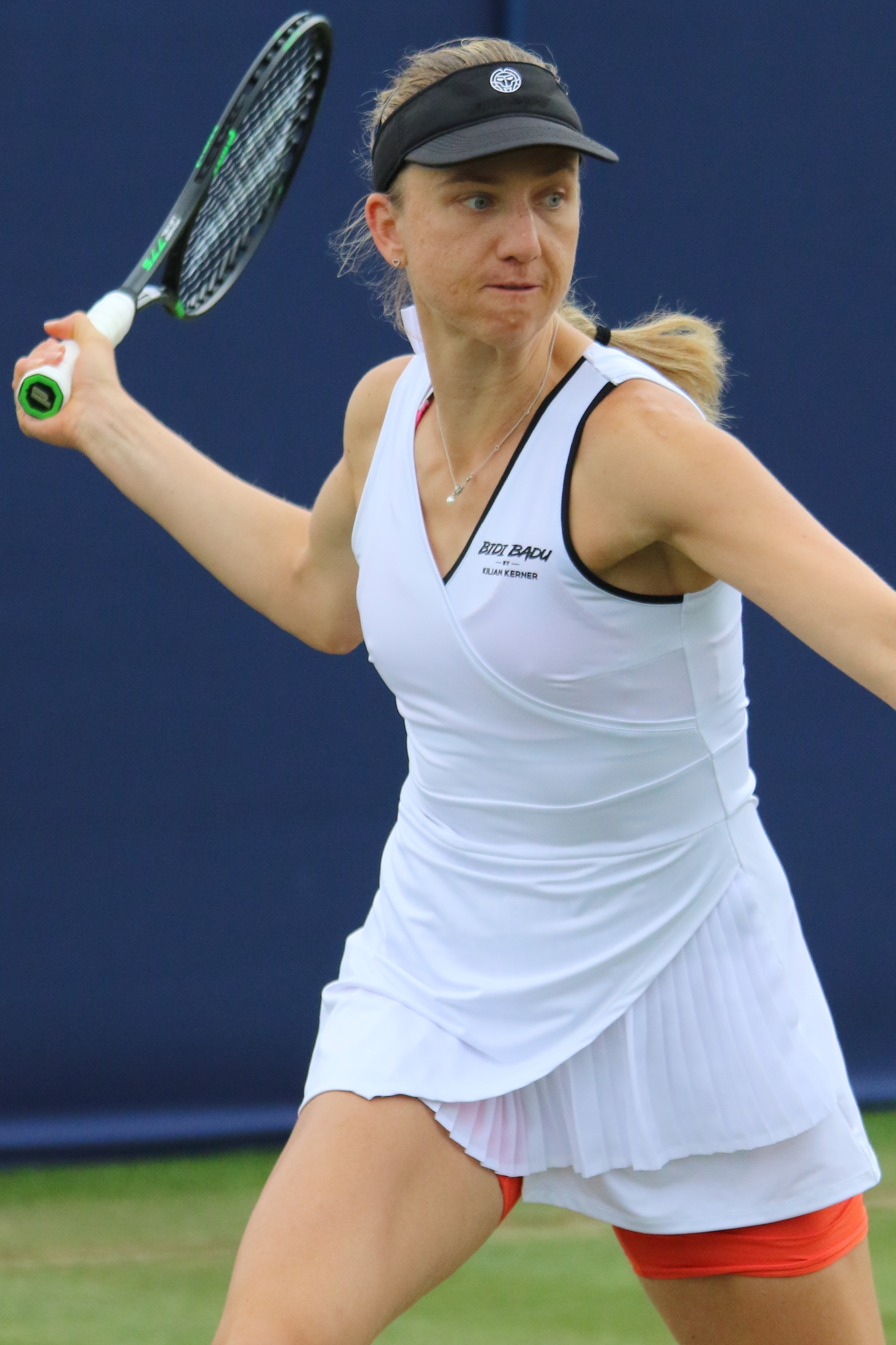 Barthel about to hit a forehand at the 2017 Aegon International Eastbourne.